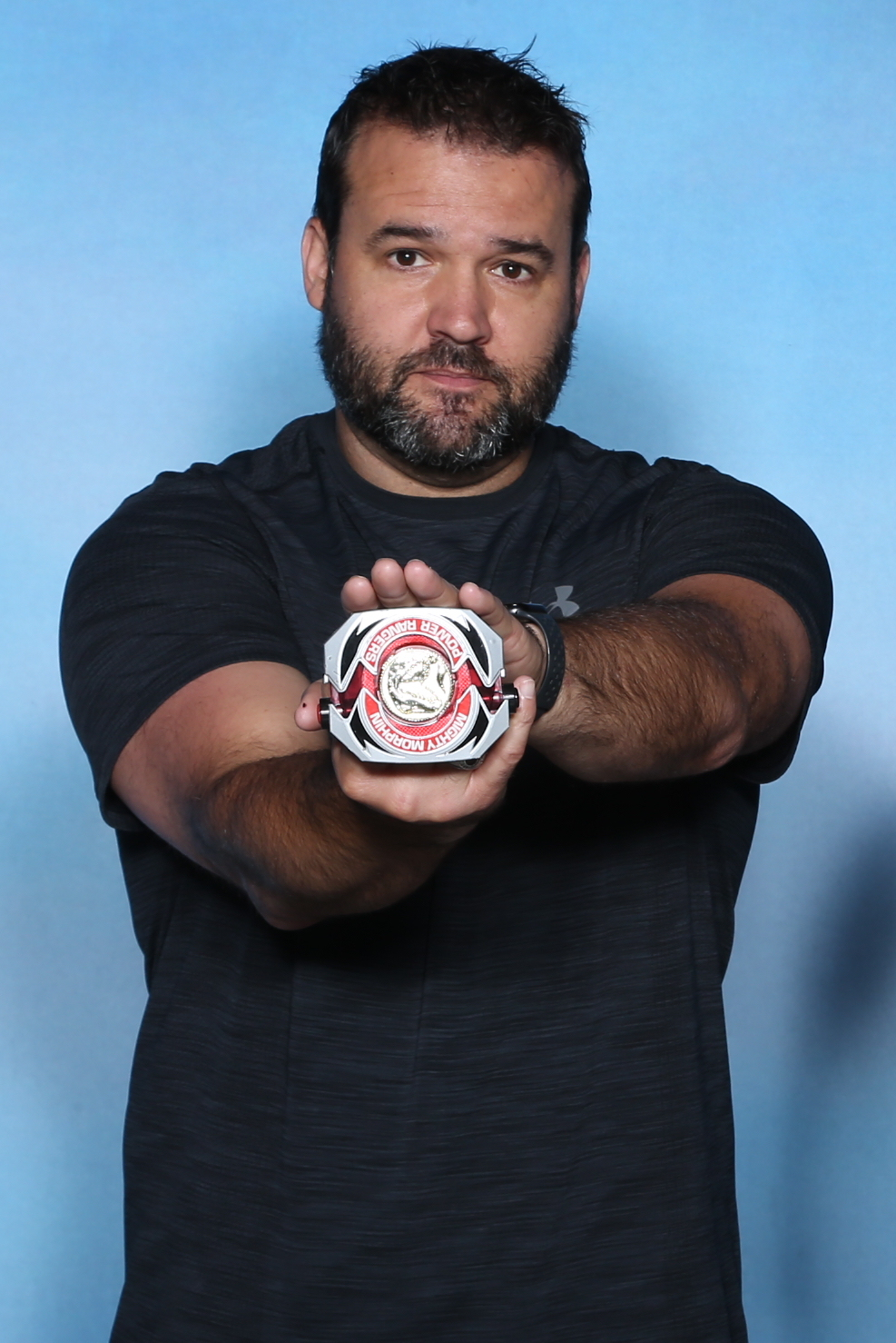 Austin St. John at GalaxyCon Richmond in 2019